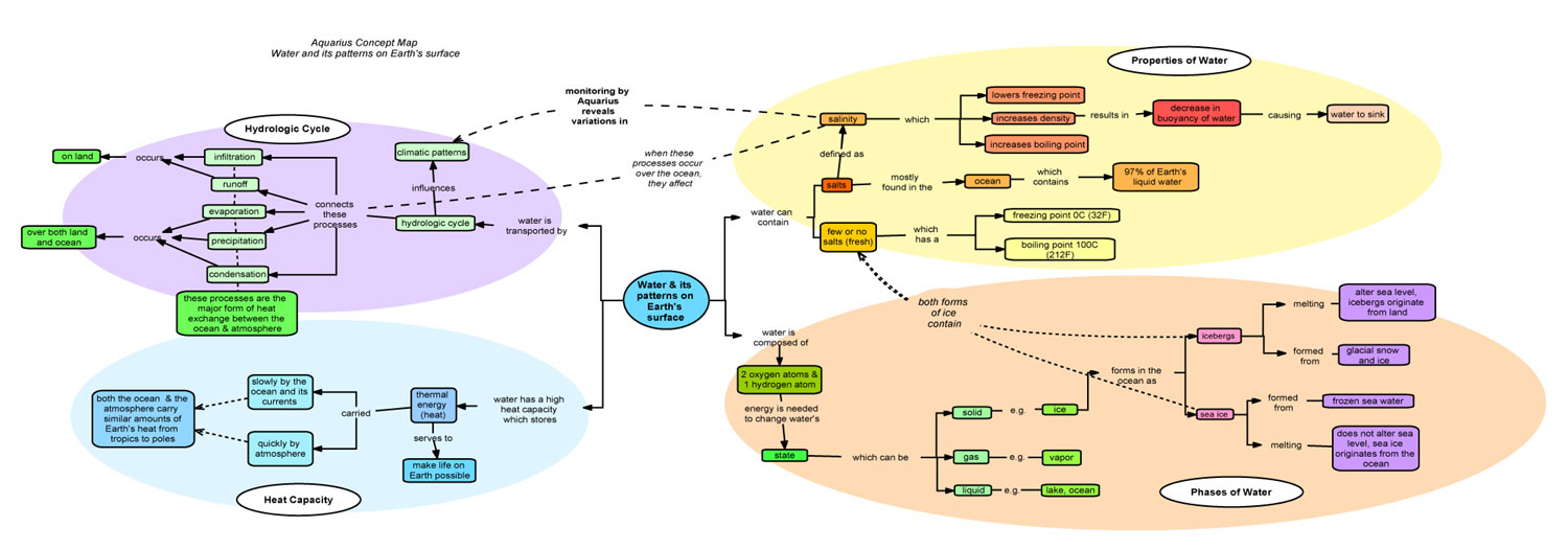 The concept map, Water and Its Patterns on Earth's Surface, highlights the relationships between salinity concepts. This approach aligns with the research from How People Learn (Bransford, Brown & Cocking, 2000) in assisting students to develop competence in an area of learning. Students must have both a deep foundation of factual knowledge and a strong conceptual framework. This allows students to organize information into meaningful patterns that can be used for future problem-solving. The map was developed in close alignment to the National Science Education Standards and the Benchmarks for Science Literacy documents. Why use concept maps? In the teaching and learning of any science subject, concepts do not exist in isolation. Each concept depends on its relationships to others for meaning. A concept map provides clarity of meaning and integration of critical details. The construction of a concept map requires thinking in multiple directions and at varying levels of abstraction. In the process of identifying the key and associated concepts of a particular topic or sub-topic, one acquires a deeper understanding and clarification of any prior preconceptions. Essential concepts and relationships are broken into four branches Properties of Water, the Hydrologic Cycle, Phases of Water, and Heat Capacity. Click on the arrow to get a close up look at each of the branches. References American Association for the Advancement of Science. (1994) Benchmarks for Science Literacy, New York, NY: Oxford University Press. National Research Council (1996). National Science Education Standards. Washington, DC: National Academy Press. Novak, J. and D. Gowin. (1984) Learning How to Learn. Cambridge University Press.